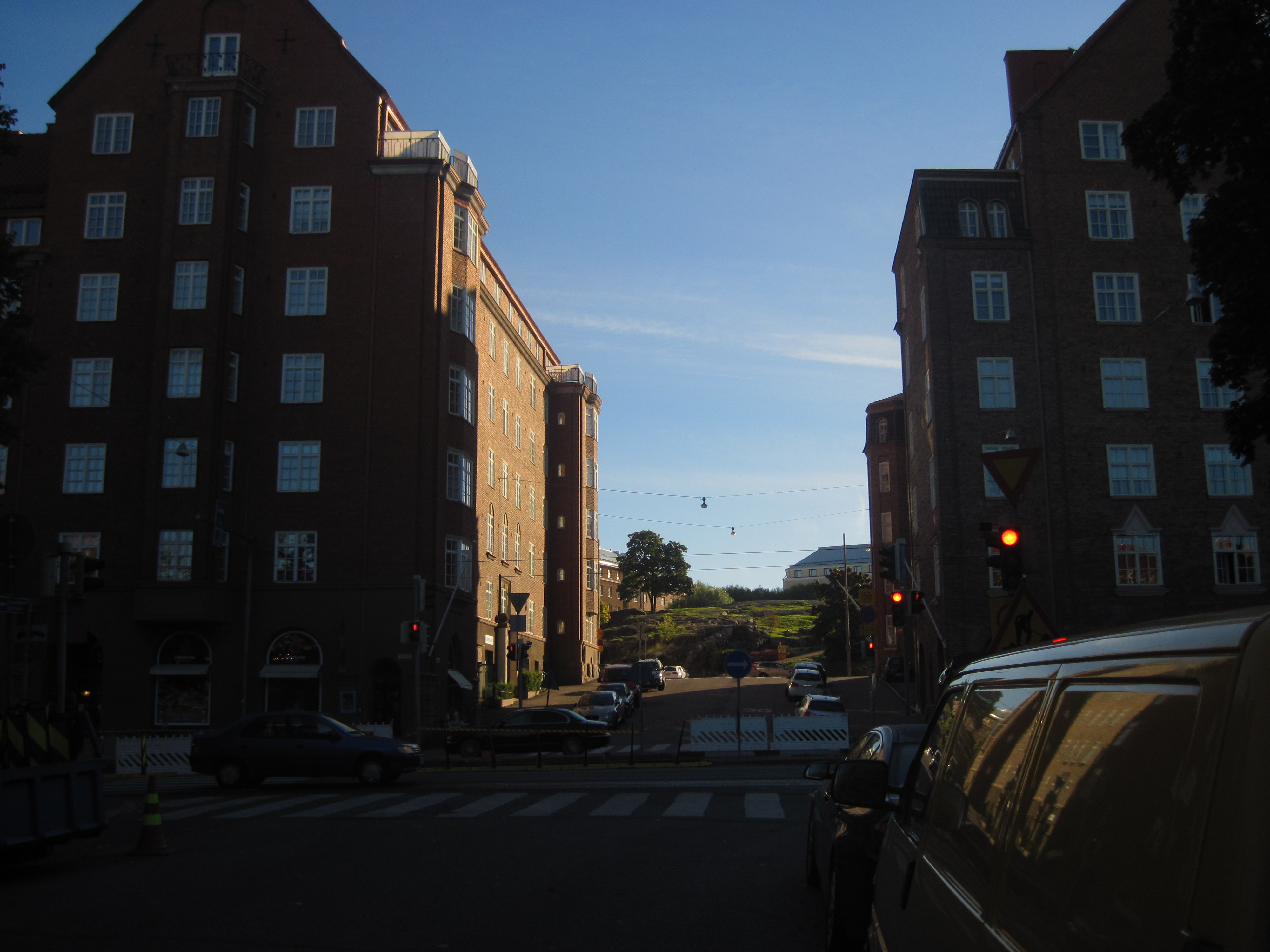 Sammonkatu in Helsinki